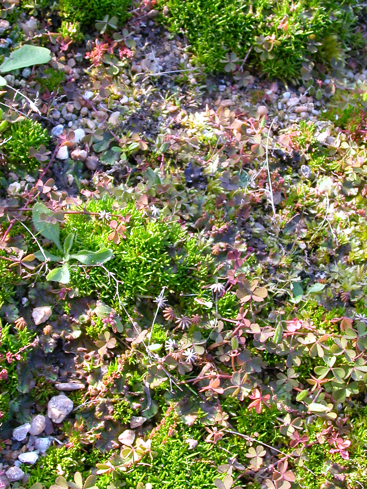 Sagina nodosa in the Jardin des plantes in Nantes